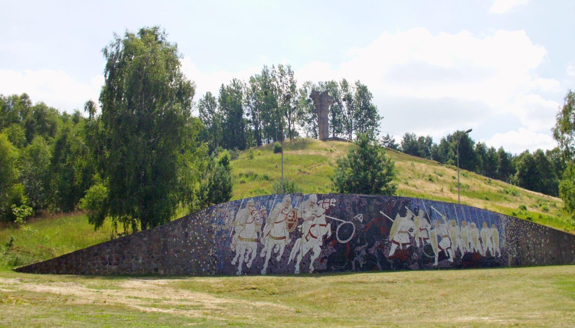 Monument to the Battle of Cedynia / Zehden (972) - Large stone mosaic with battle scene. Created by Jerzy Chmielewski and Kazimierz Błonko.